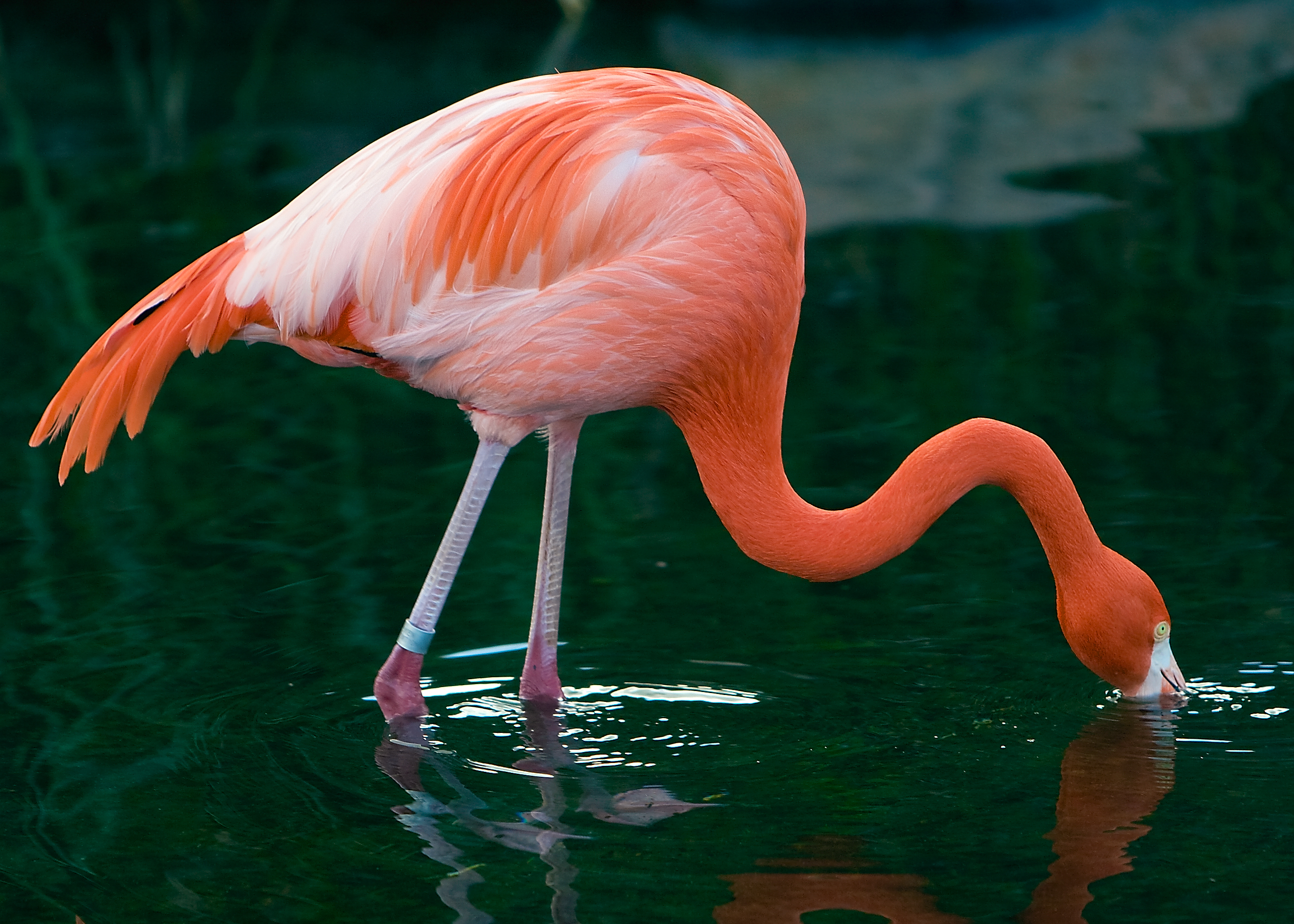 The animals at Temaikén Zoo live in well kept large exhibits